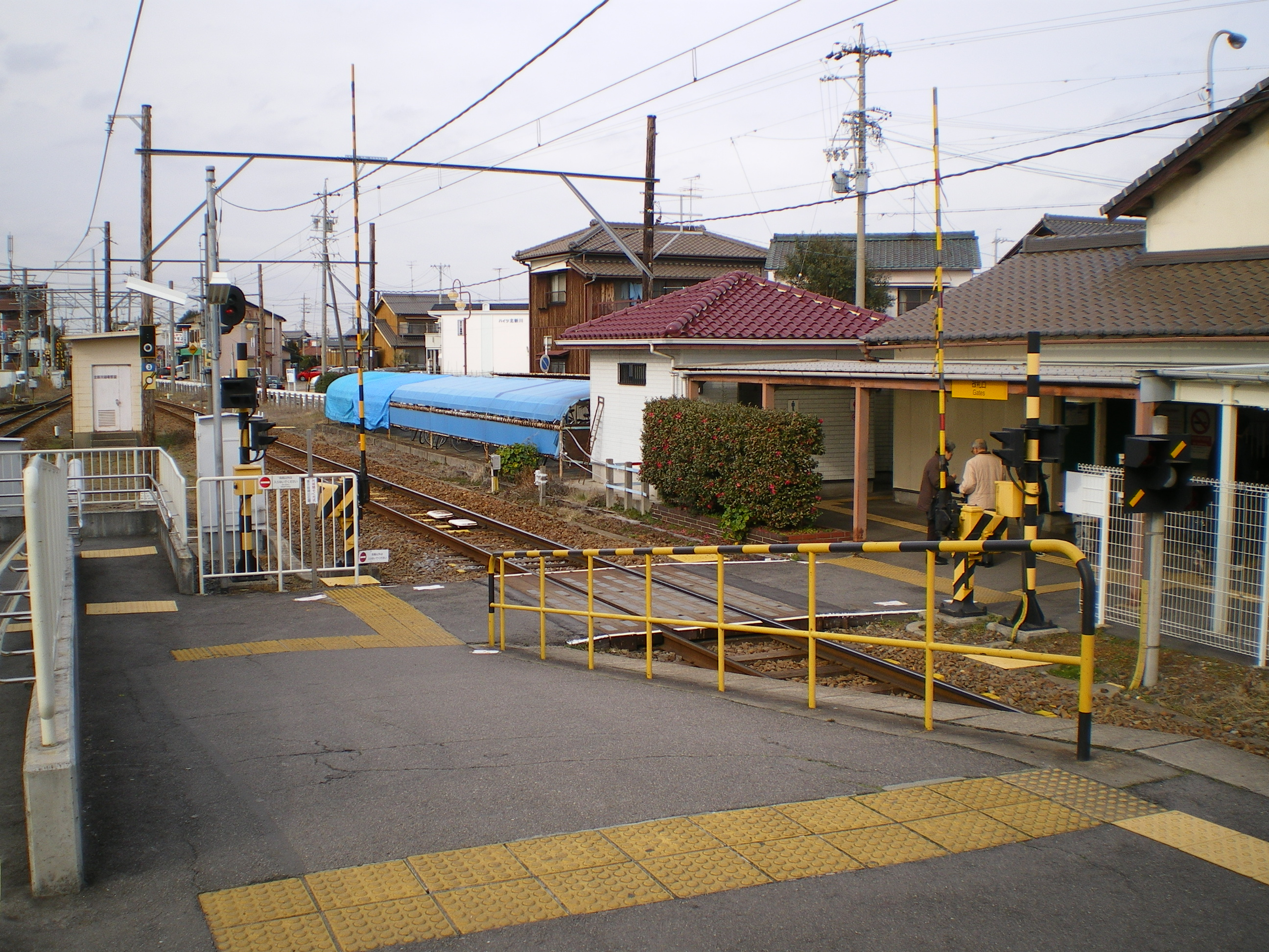 Nagoya Railroad Mikawa Line Kitashinkawa Station Crossing